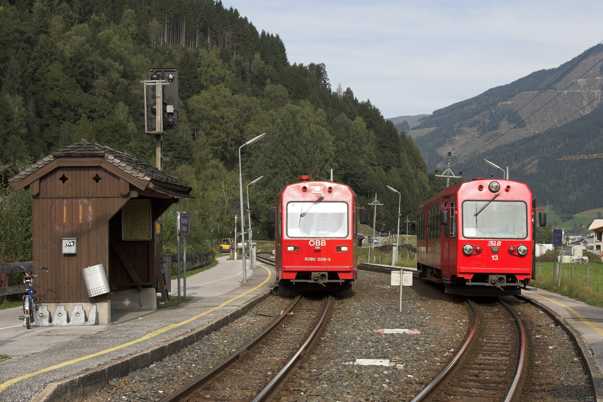 ÖBB 5090 008 and SLB VTs 13 (ex ÖBB 5090 003) meeting at Bruckberg Golfplatz.